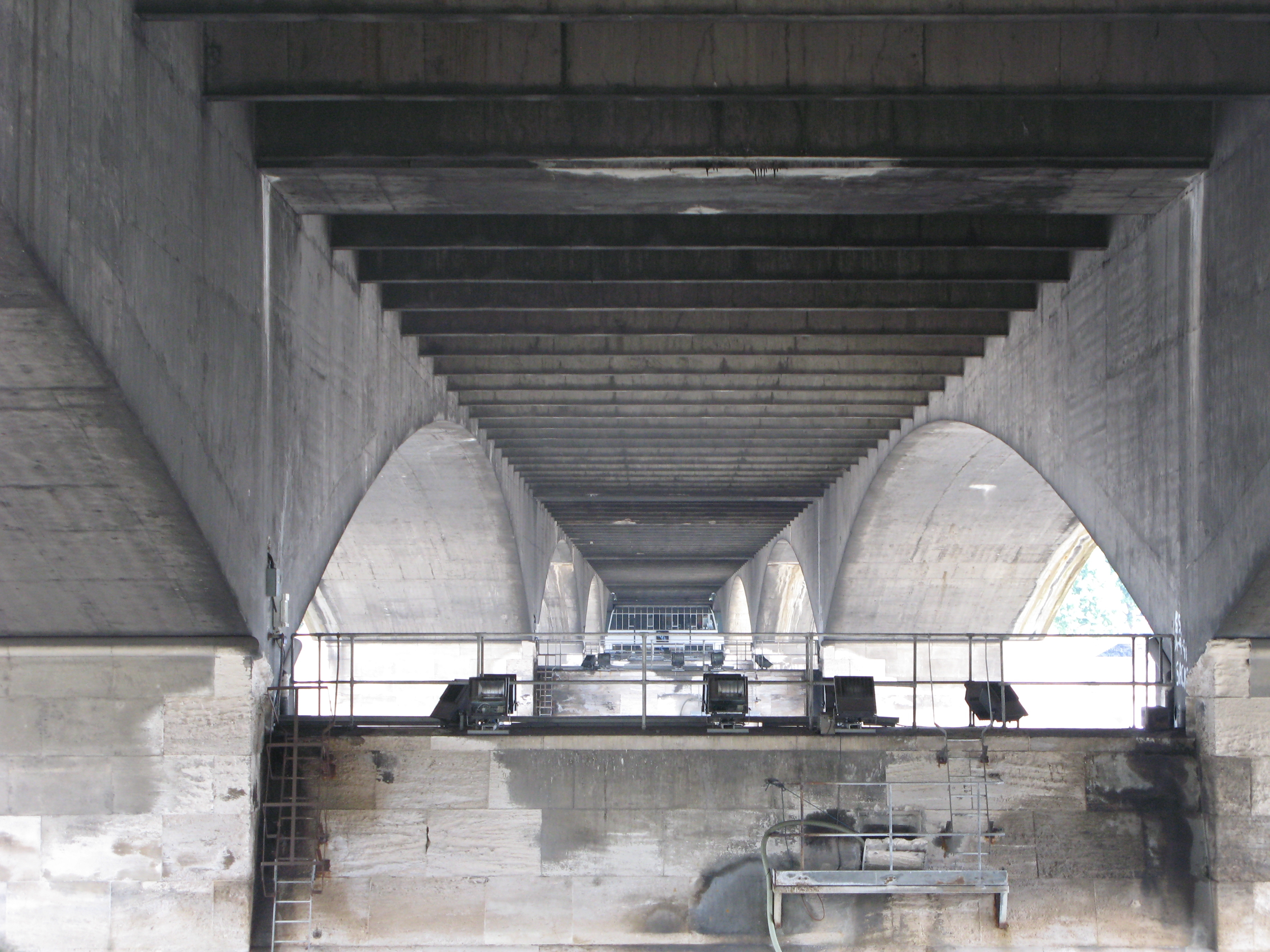 Underside of Waterloo Bridge showing supporting beams at outside edges only